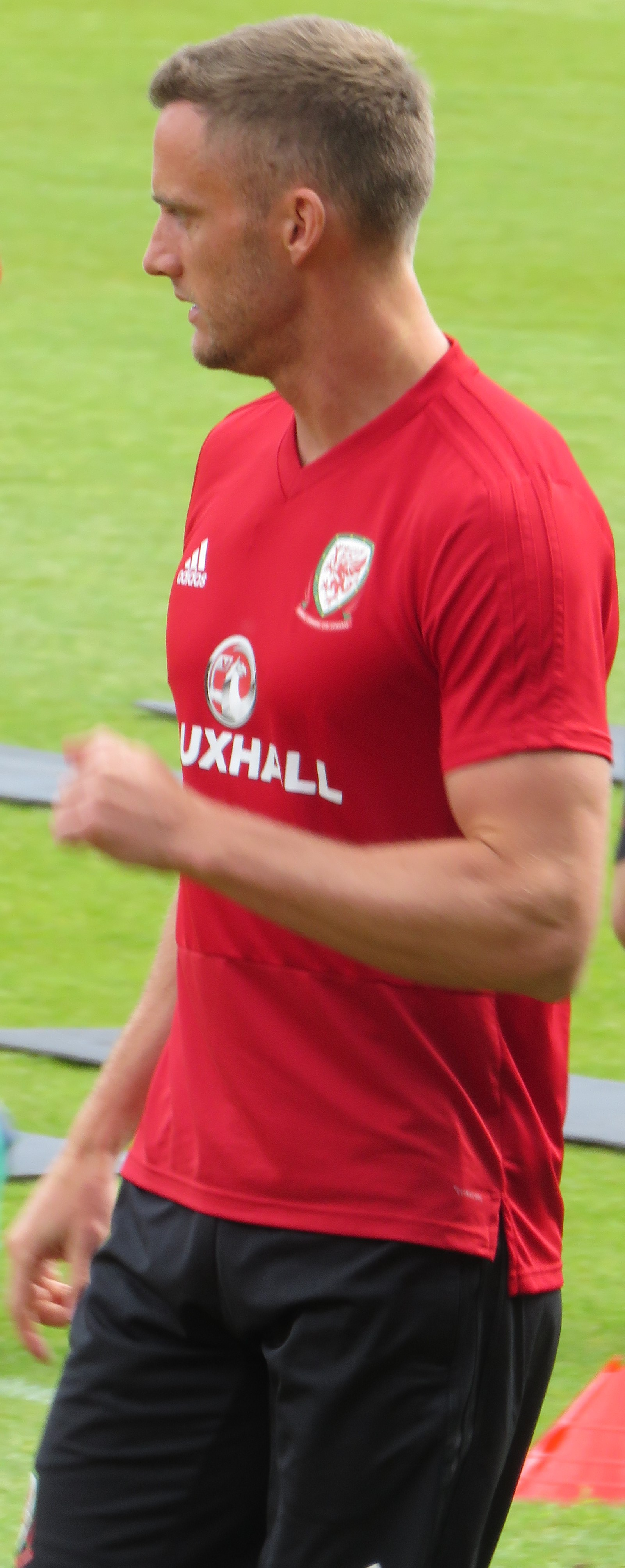 Andy King training with Wales football squad, Wrexham